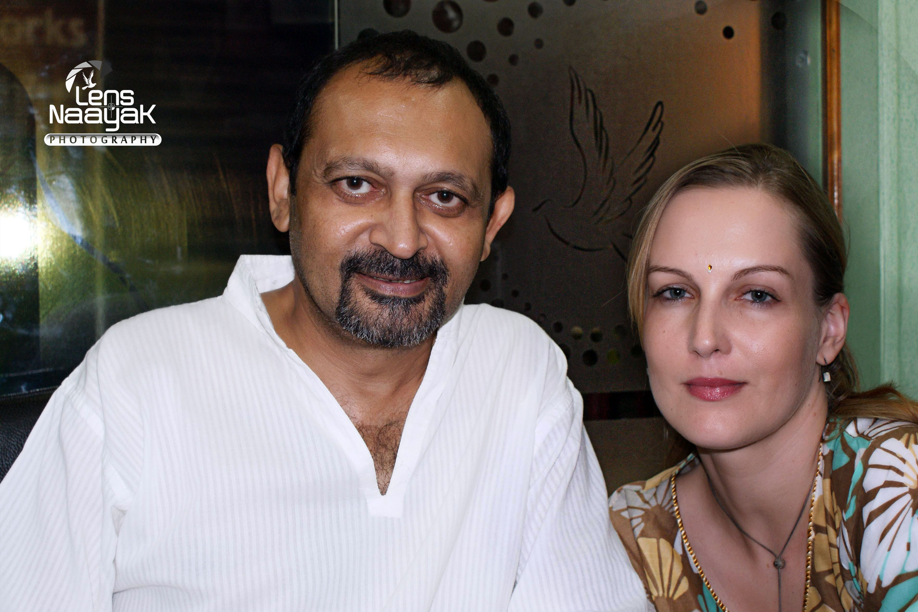 Bollywood Actors Akhil Mishra & Suzanne Bernert from Germany in Bollywood